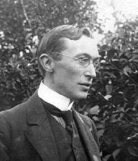 Herman Teirlinck (1879-1967), Flemish writer. Photograph (1905) by unknown photographer.